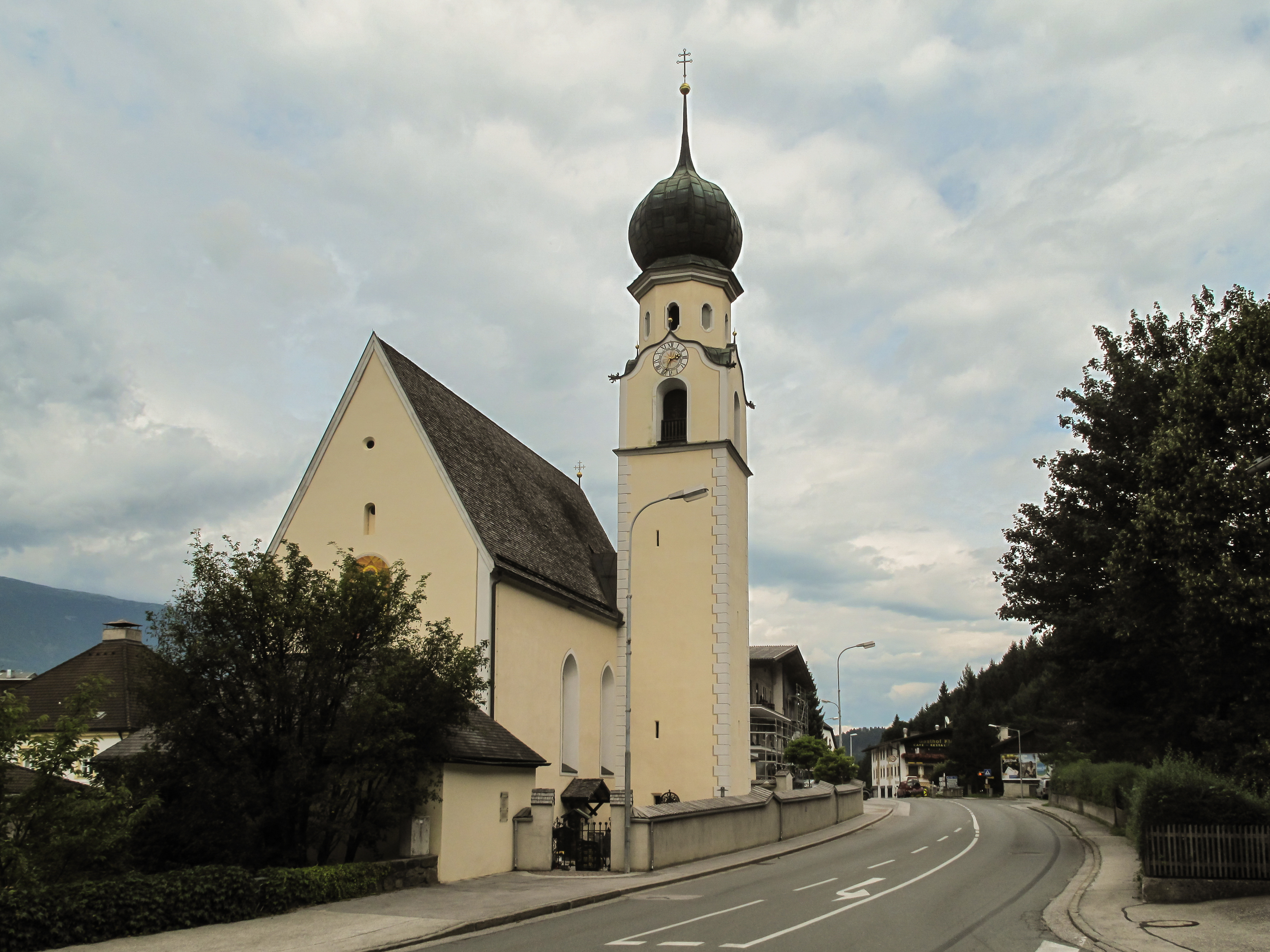 Pill, church: Pfarrkirche Sankt Anna